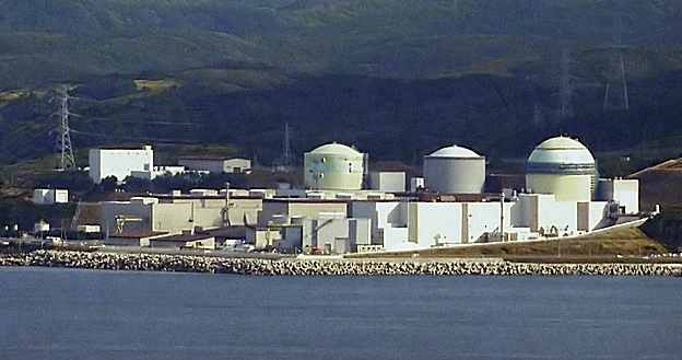 Tomari Nuclear Power Plant (Tomari, Hokkaidō, Japan)